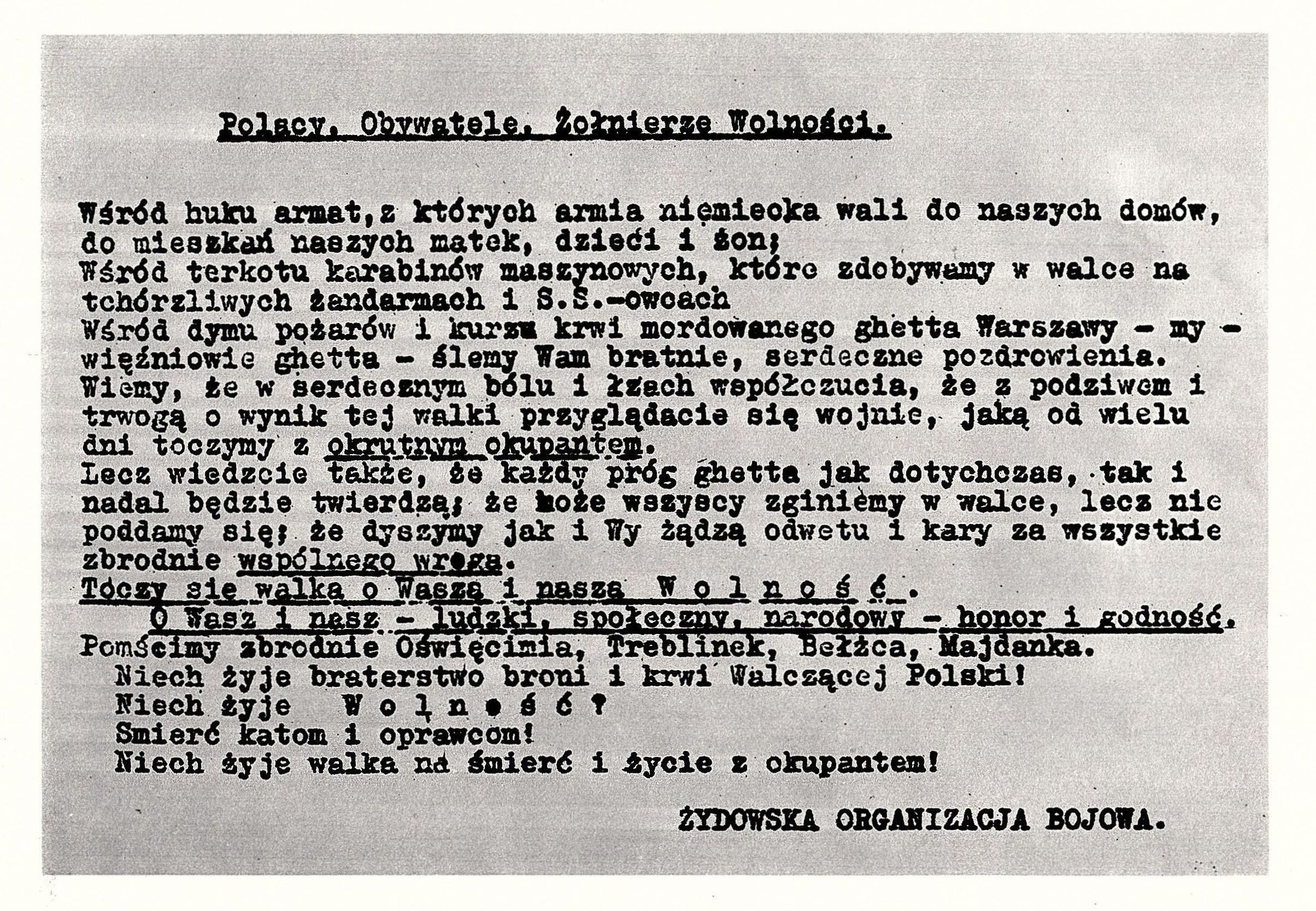 Jewish Combat Organization's appeal to the Poles issued on 23 April 1943